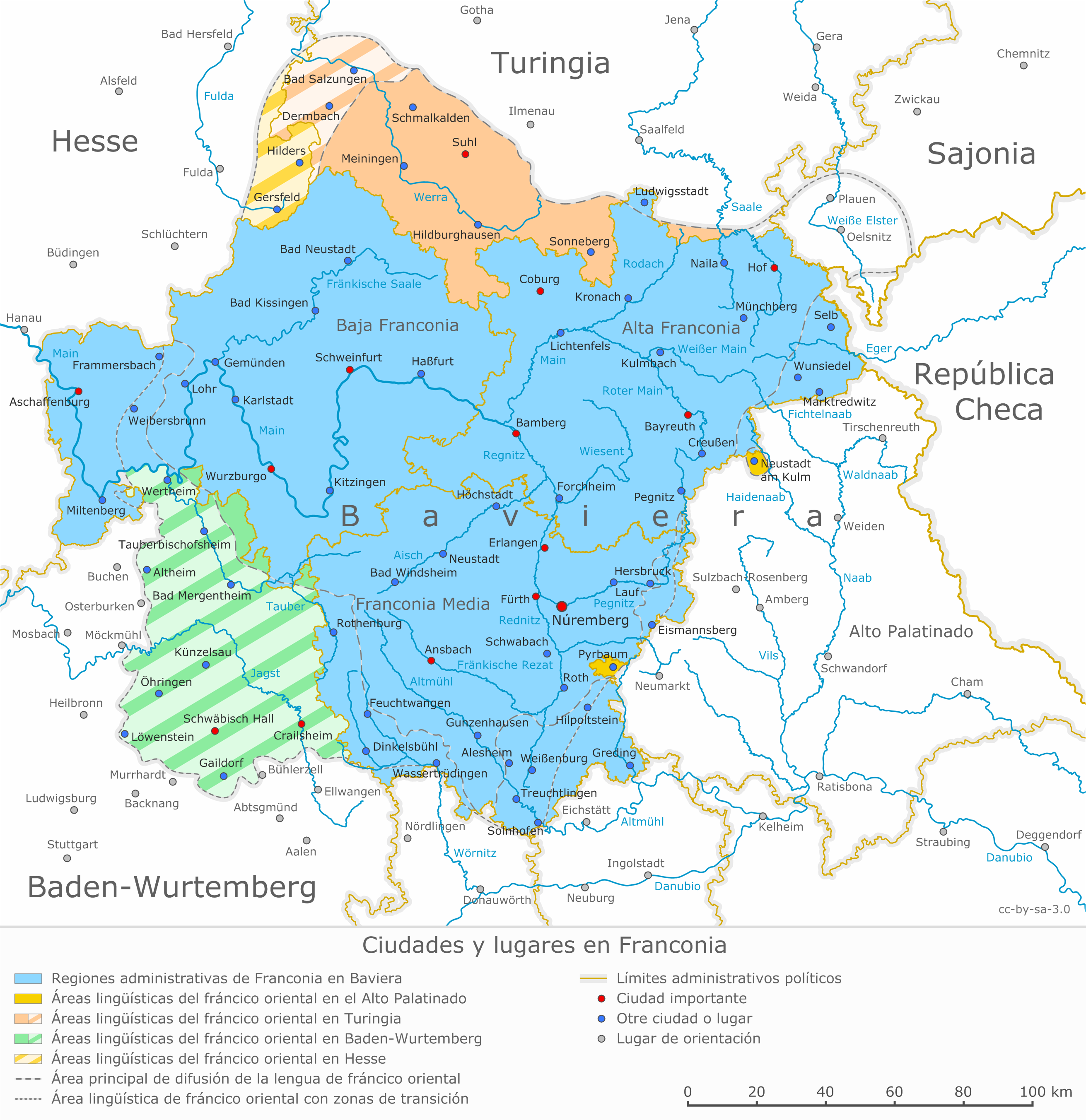 Cities and places in Franconia